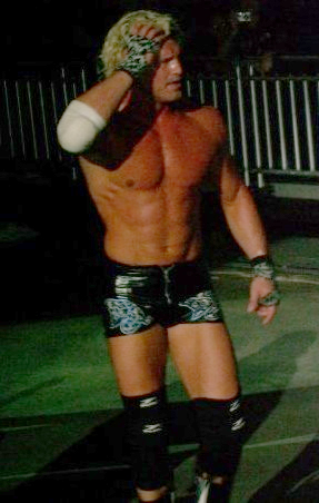 Dolph Ziggler at a Puerto Rico house show.